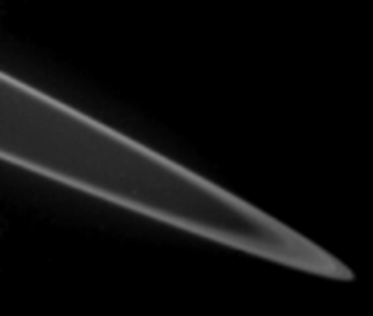 Jupiter's rings